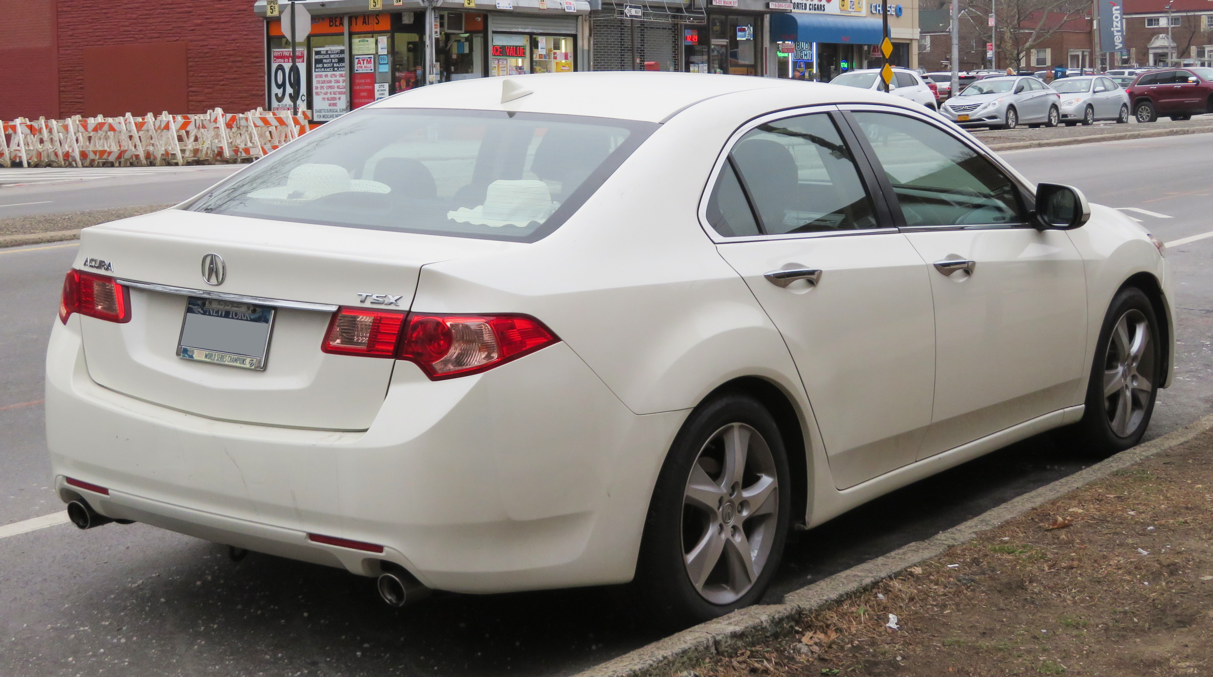 A 2011 Acura TSX photographed in Kew Gardens, Queens, New York, USA